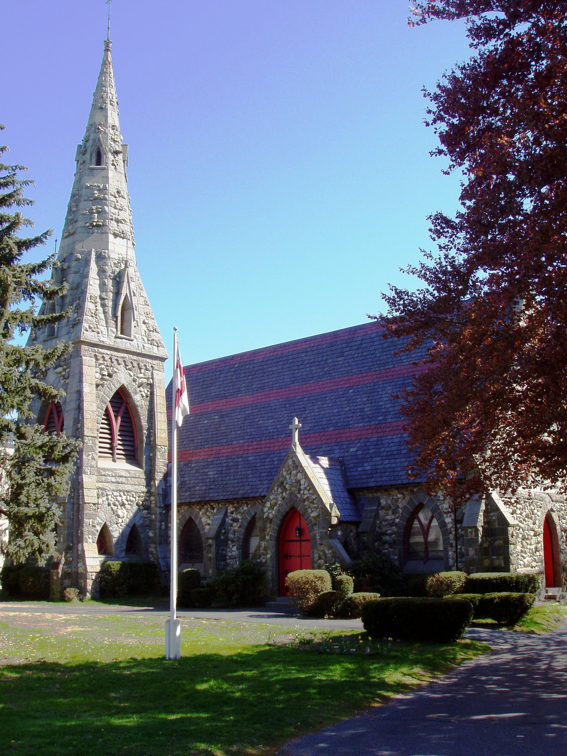 Grace Episcopal Church, Medford, Massachusetts, USA. Architect H. H. Richardson. General view of north facade.